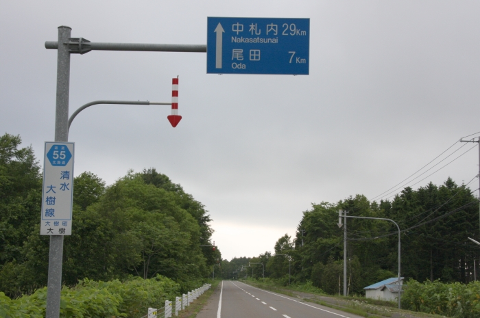 Sign for the Hokkaido Prefectural Road Route 55 in Taiki, Taiki Town